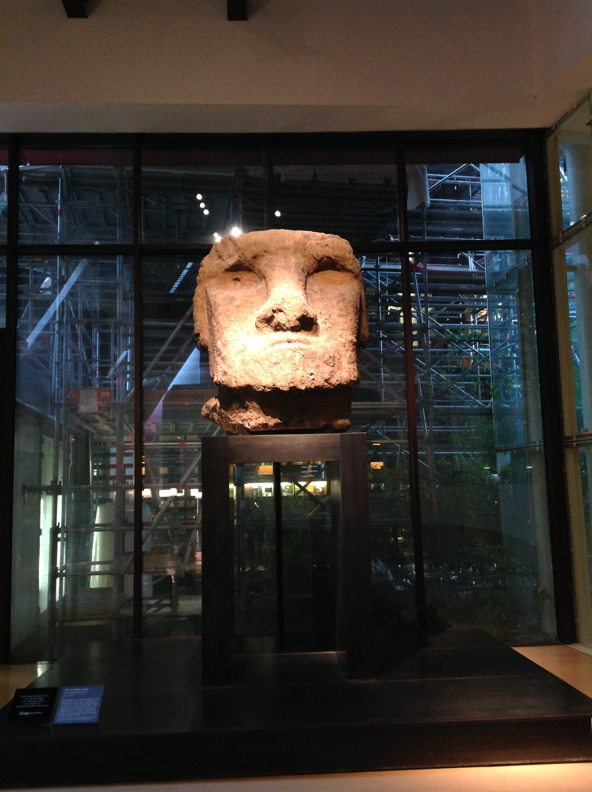 Stone head from Easter Island, displayed in the foyer of the Musee du quai Branly in Paris